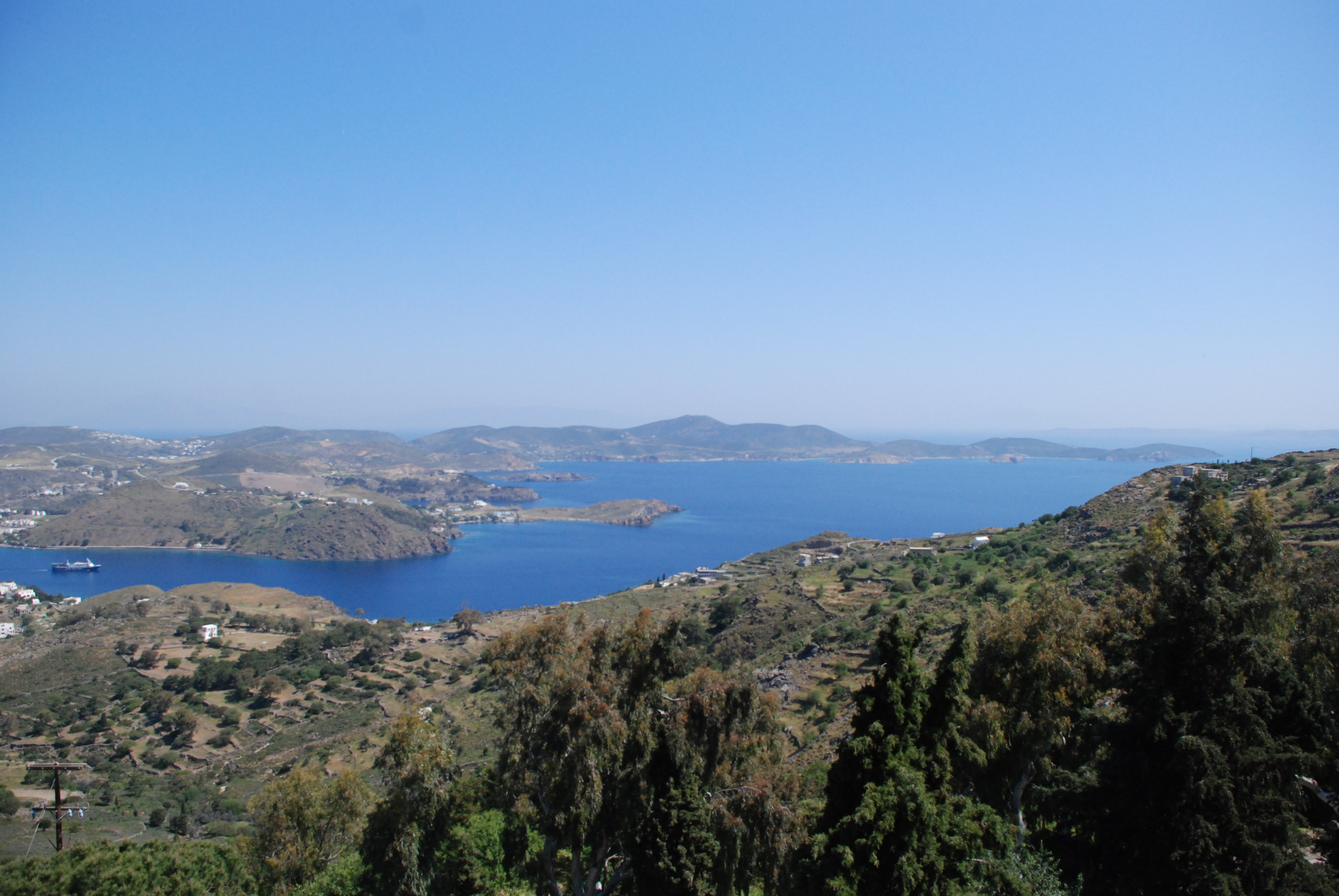 Seen from the Monastery of St John the Theologian, Patmos.